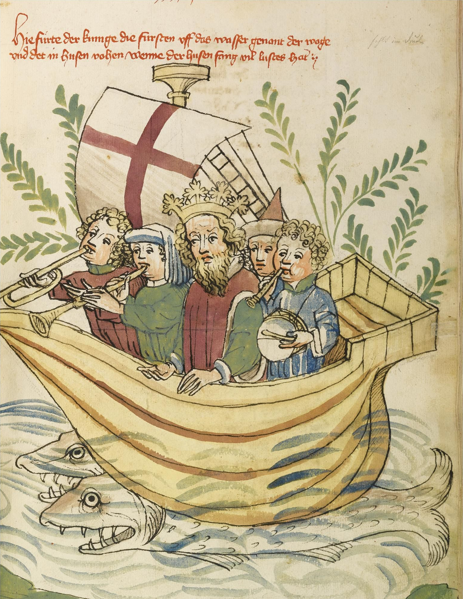 Eberhard Windeck: Das Buch von Kaiser Sigismund (Handschrift bei Sotheby's 7.7.2009, folio 89r, King Sigismund and a number of German princes (each playing a musical instrument) in a large boat, fishing for sturgeon in the River Waag, as two large fish lurk underneath the boat's keel